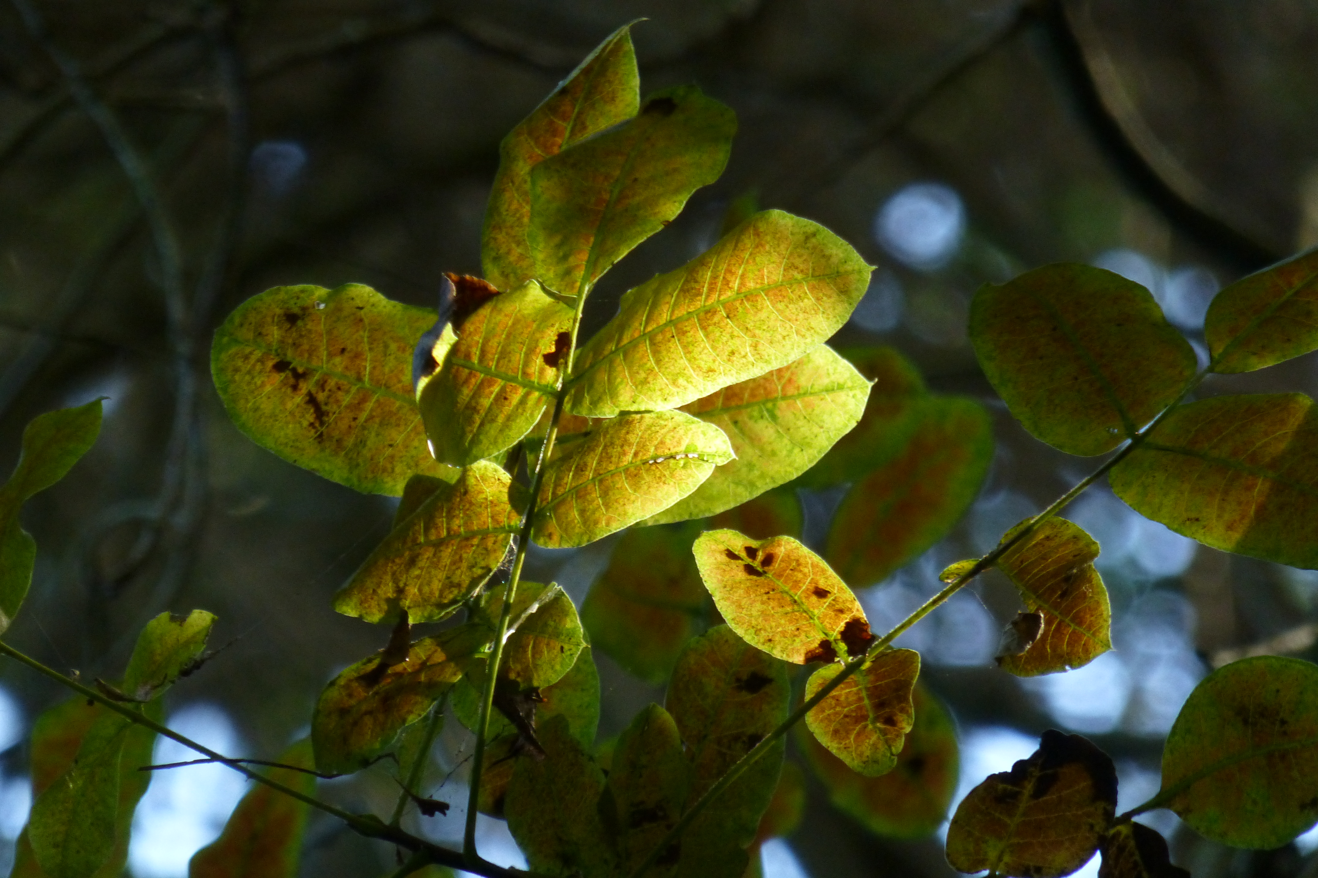 Mount Carmel